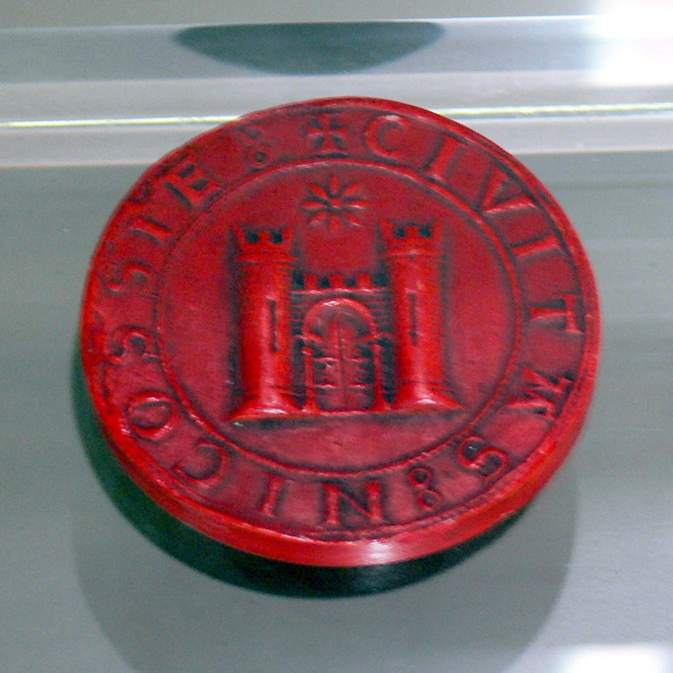 Nicosia ( Cyprus ). Leventio Municipal Museum: City seal of Nicosia ( 13th century ).